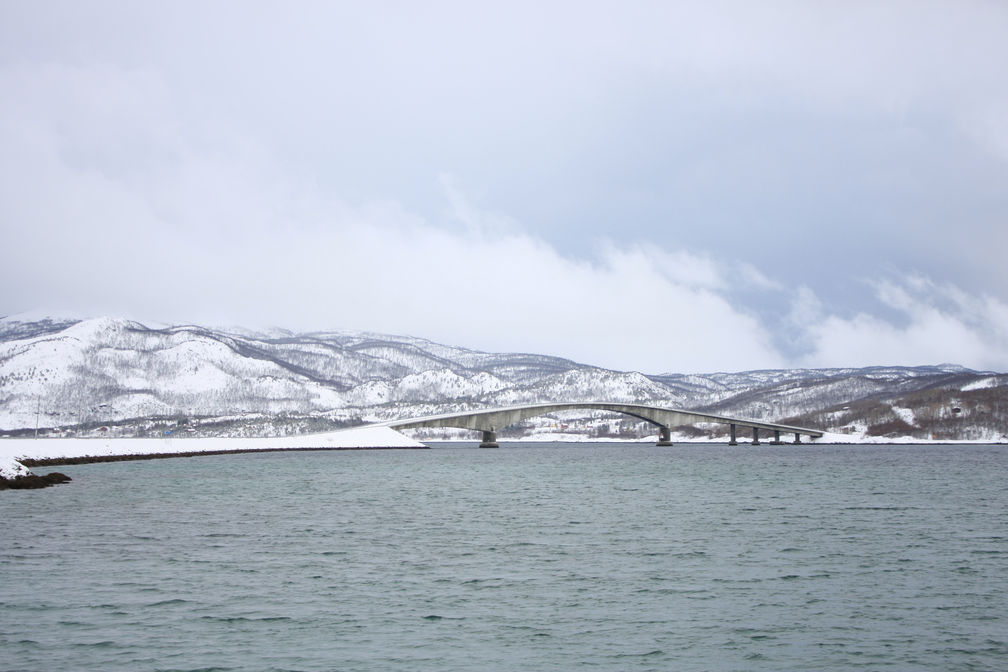 The bride to Dyrøya in Troms county, Norway. The bridge seen from the East.